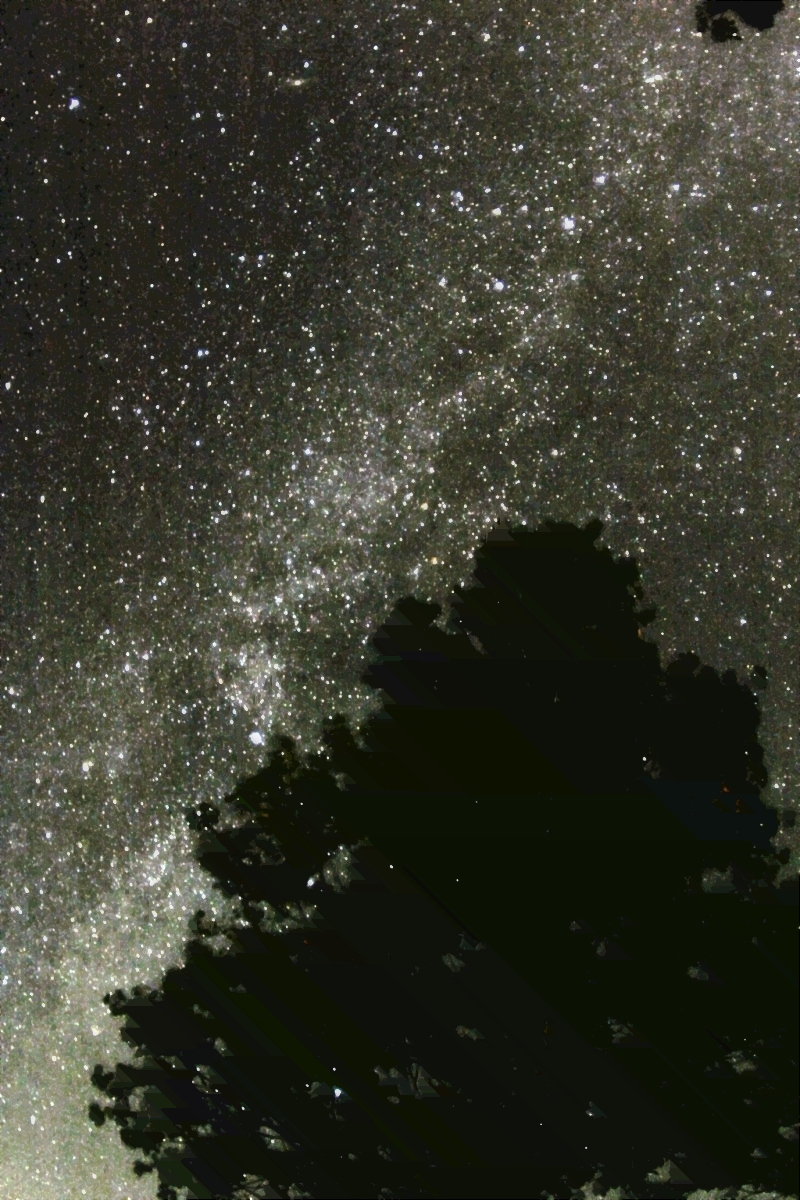 Foto of the Milky Way